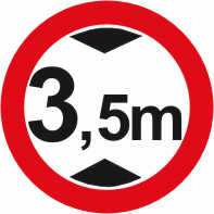 Diagram of road signs of Luxembourg